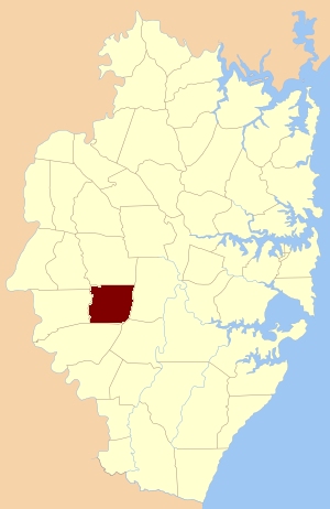 original location of the parish within Cumberland County, New South Wales (Sydney area)